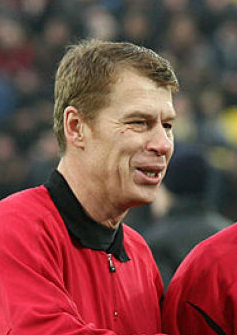 Yury Baskakov in match between FC Rostov and FC Zenit St. Petersburg